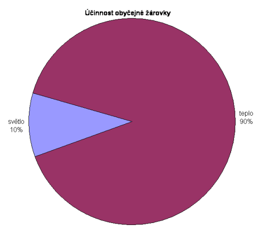 Energy conversion efficiency graph of light bulb with Czech description.